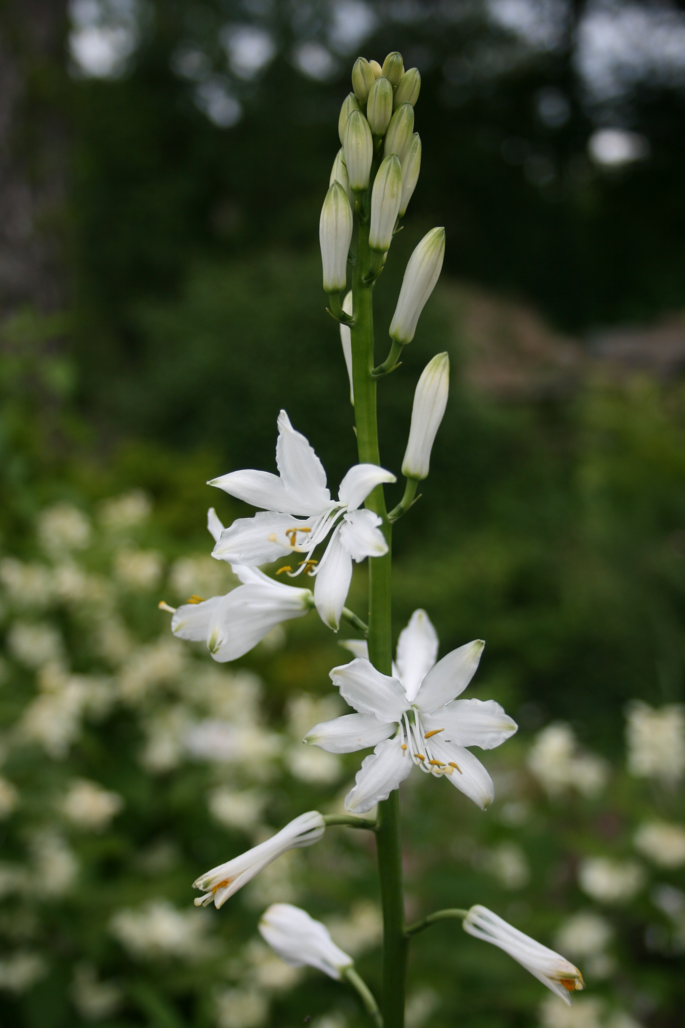 Paradisea lusitanica